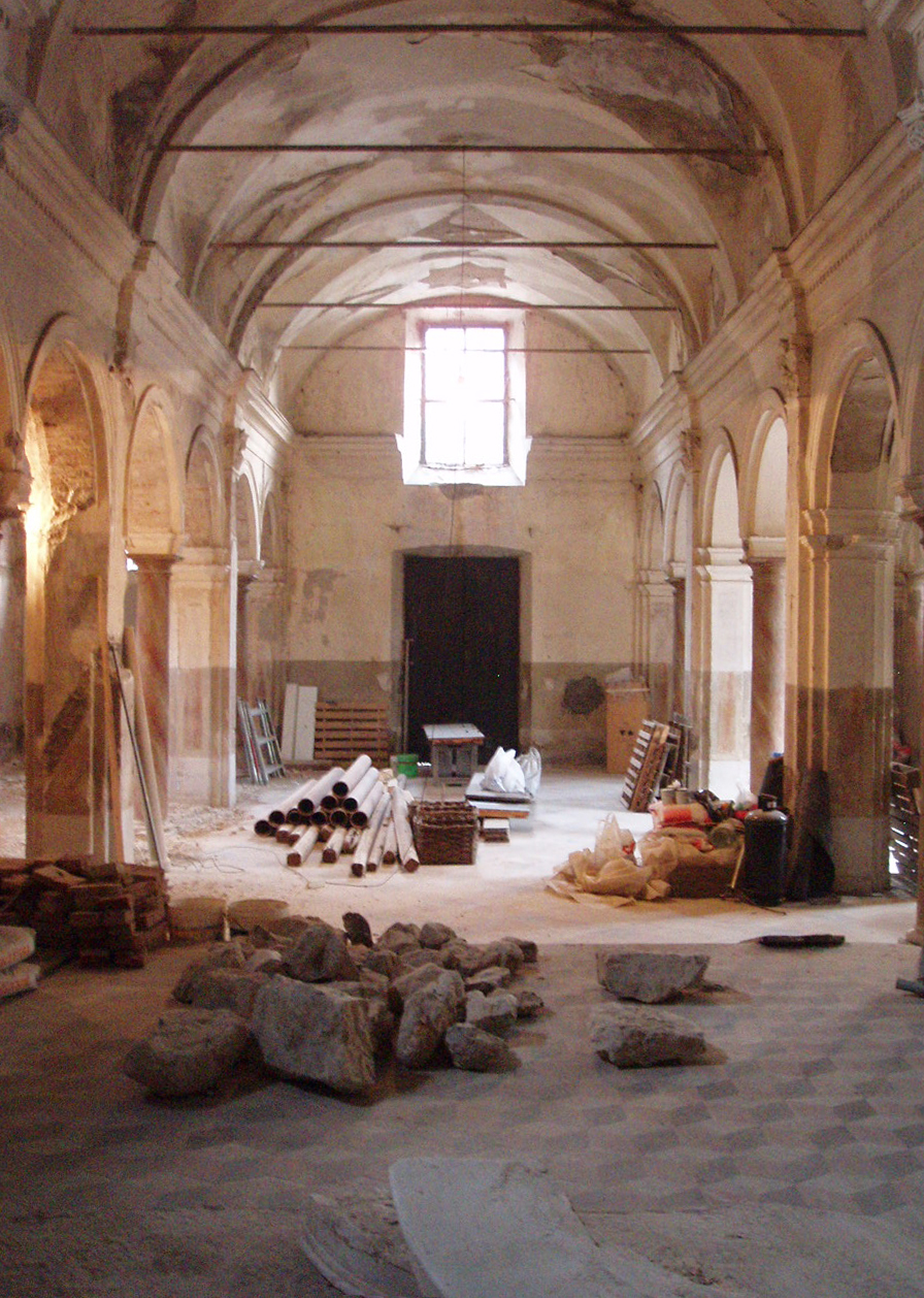 Interior view of the old church of Fiobbio deconsecrated in 1952. From the picture you can see the nave with a barrel vault and the central window above the main door. At sides are visible columns in stone of Sarnico in the order of 6 and the 4 pillars that support the round arches. In the foreground the remains of the main altar, which was destroyed following the desecration..